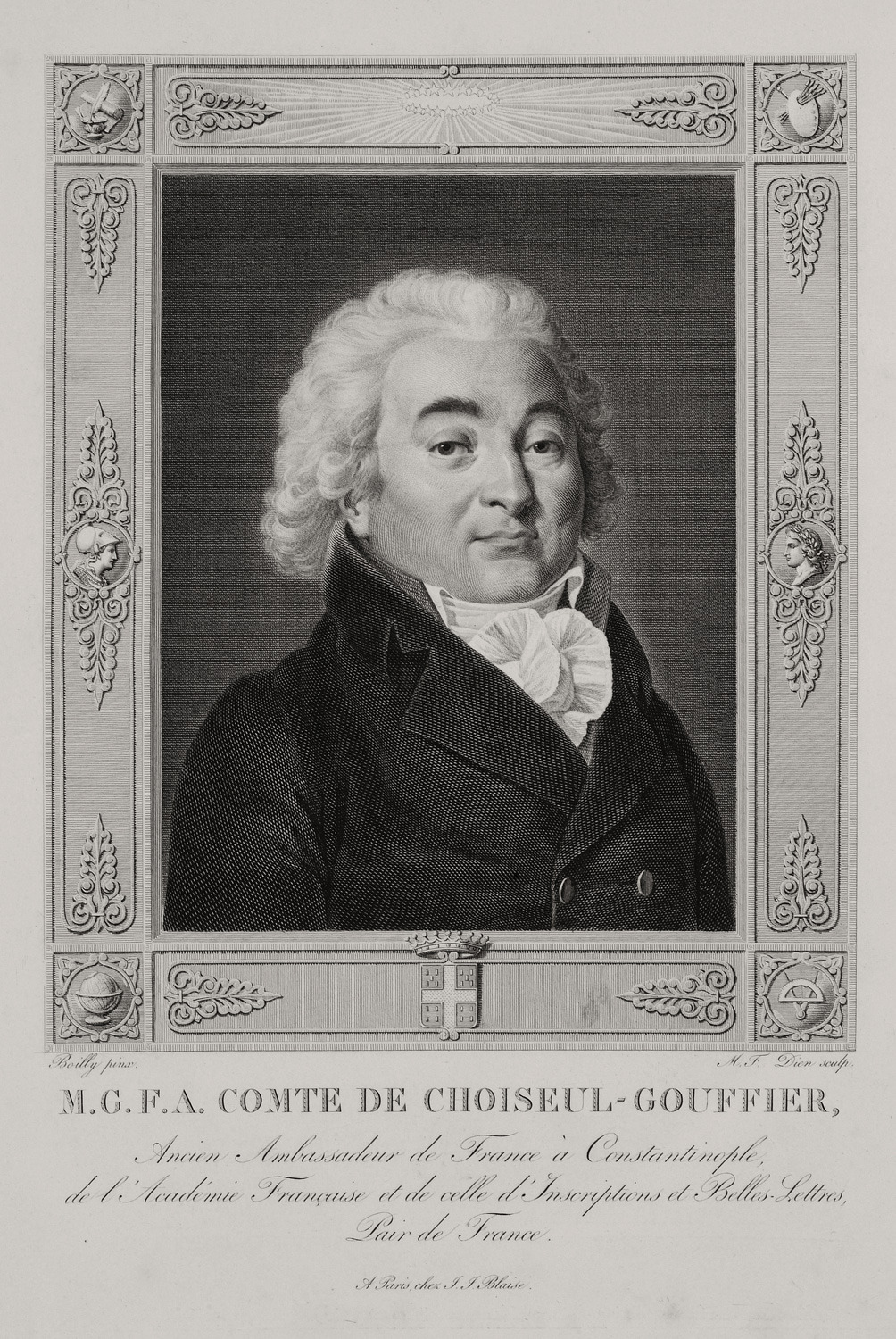 Marie-Gabriel-Florent-Auguste Comte de Choiseul-Gouffier. Voyage pittoresque de la Grèce. Paris, J.-J. Blaise M.DCCC.IX, (1782 1st volume, 1809 2nd volume, 1822 3rd volume, 1842 2nd edition. Boilly pinx. M.F. Dien sculp. M.G.F.A. COMTE DE CHOISEUL-GOUFFIER, Ancien Ambassadeur de France a Constantinople, de l'Academie Francaise et de celle d'Inscriptions et Belles-Lettres, Pair de France. A Paris, chez F.F.Blaise